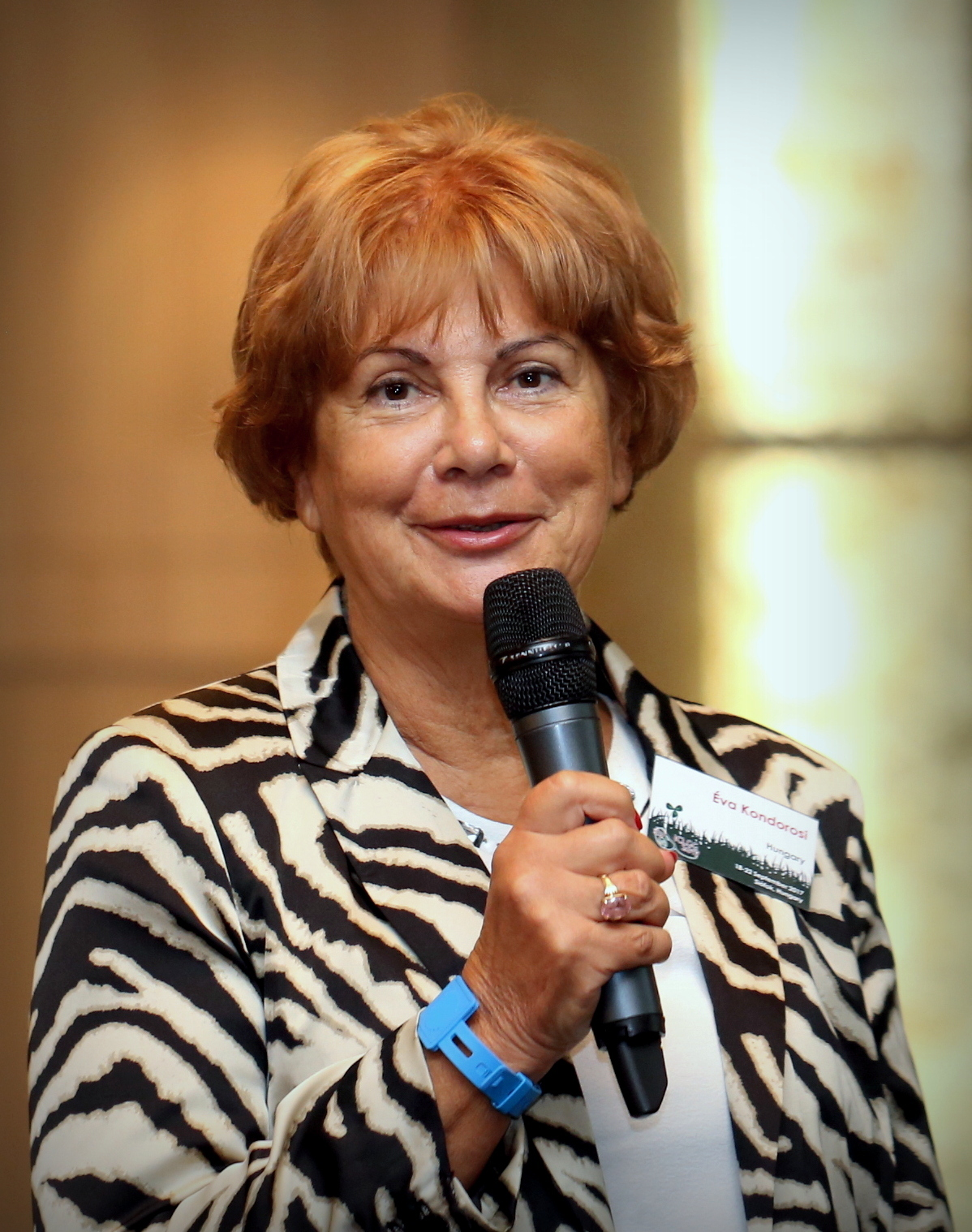 Kondorosi Éva - Research Professor at Biological Research Centre of the Hungarian Academy of Sciences (HU) and Research Director at the Plant Science Institute of CNRS (FR)